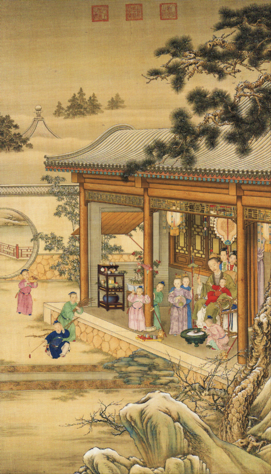 Emperor Qianlong's Pleasure during Snowy Weather